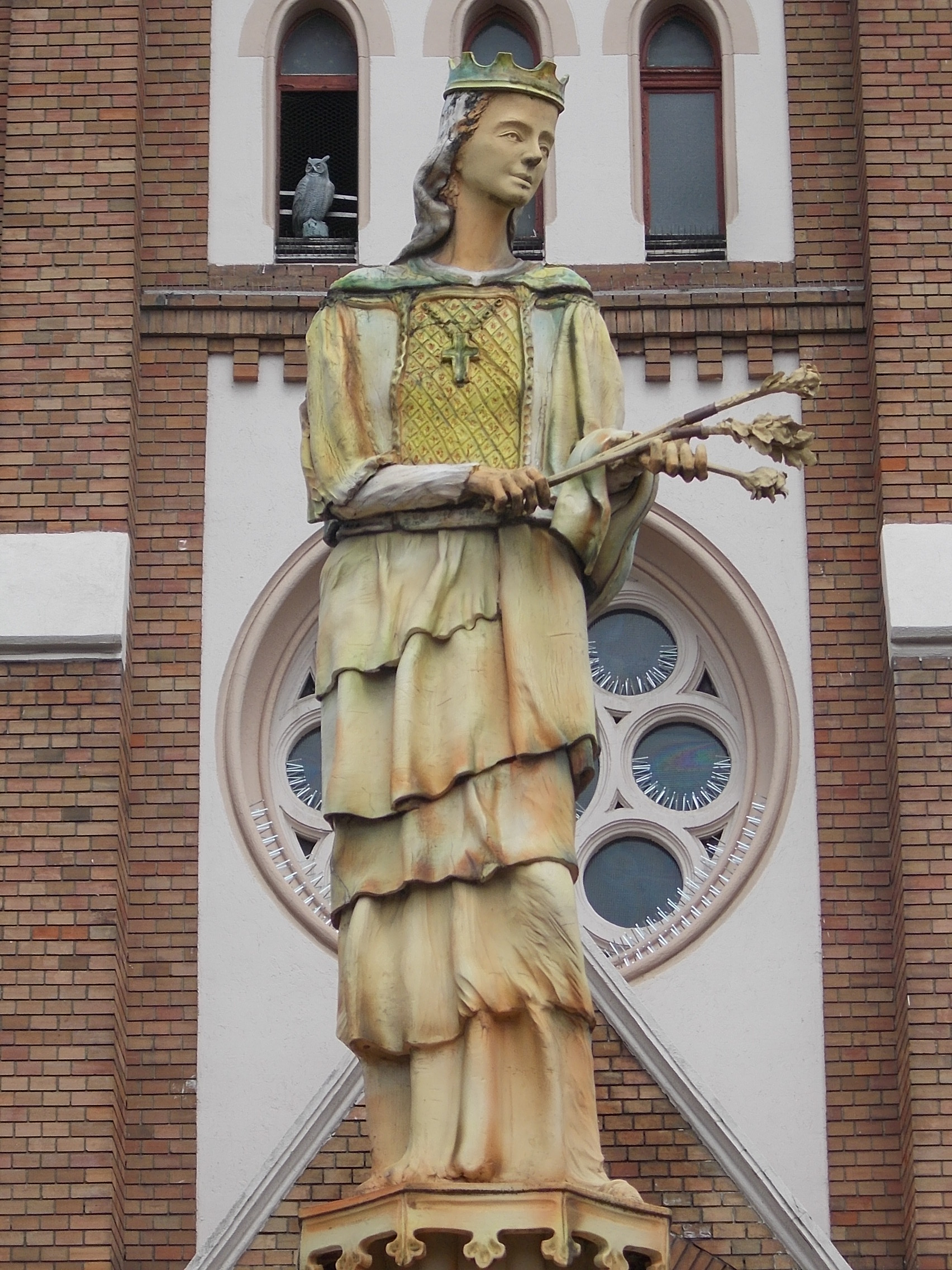 Saint Elisabeth of Hungary memorial by Zsuzsa Pannonhalmi (1997). A glazed ceramic statue (2,2m high) and relief composition on an octagonal base with eight relief.- Szent Erzsébet square, 20th district, Budapest.